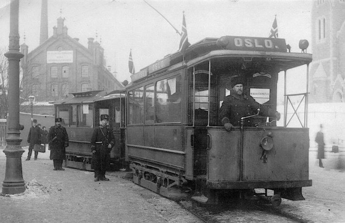 Kristiania Sporveisselskab tram no. 79 (Class U) and converted horsecar at Homansbyen Depot.